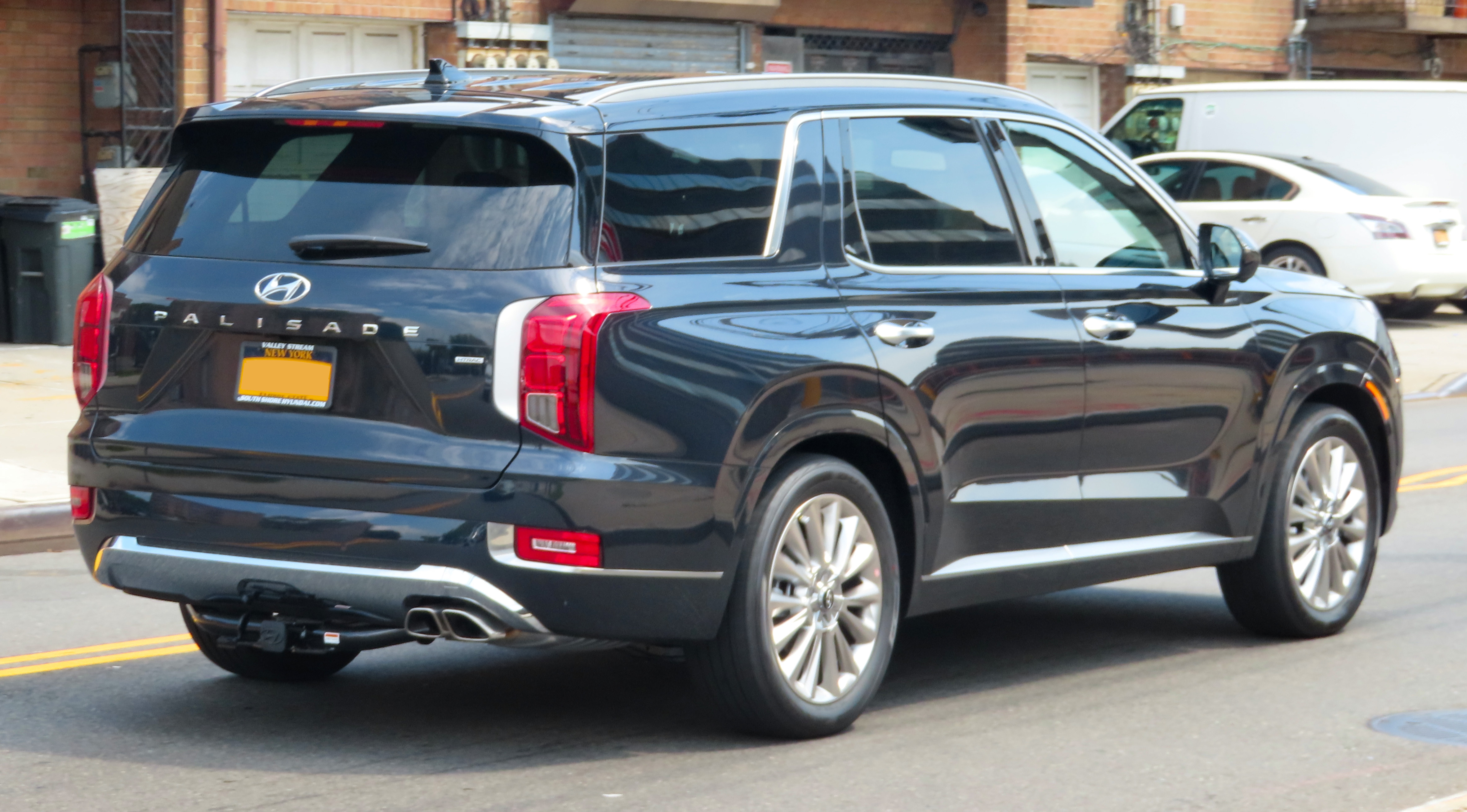 A 2020 Kia Palisade SE photographed in College Point, Queens, New York, USA